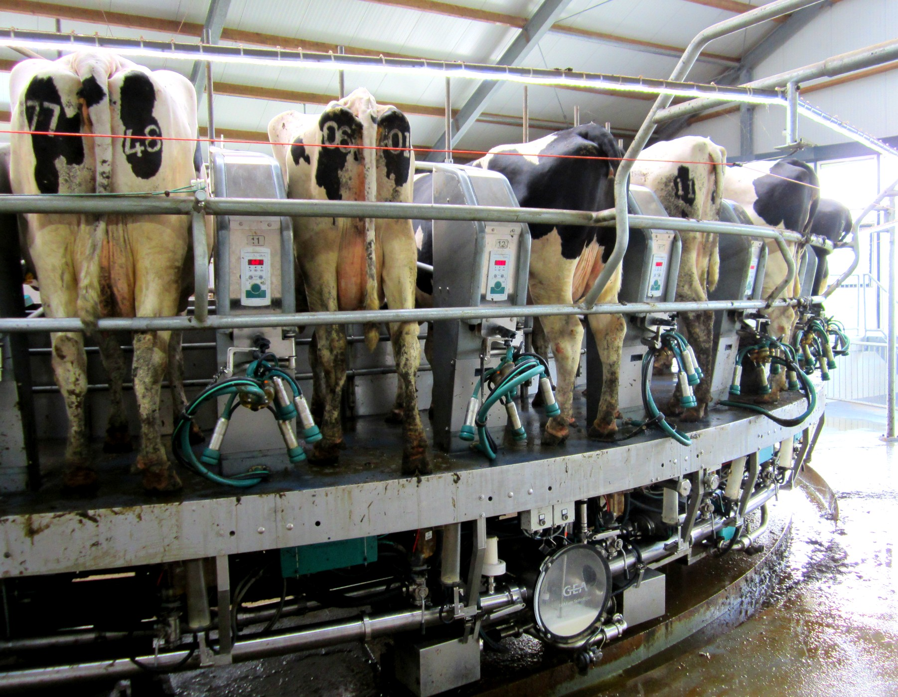 The Dairy Campus in Leeuwarden/Ljouwert, part of Wageningen University & Research. Cows getting milked in a rotary milking parlour.